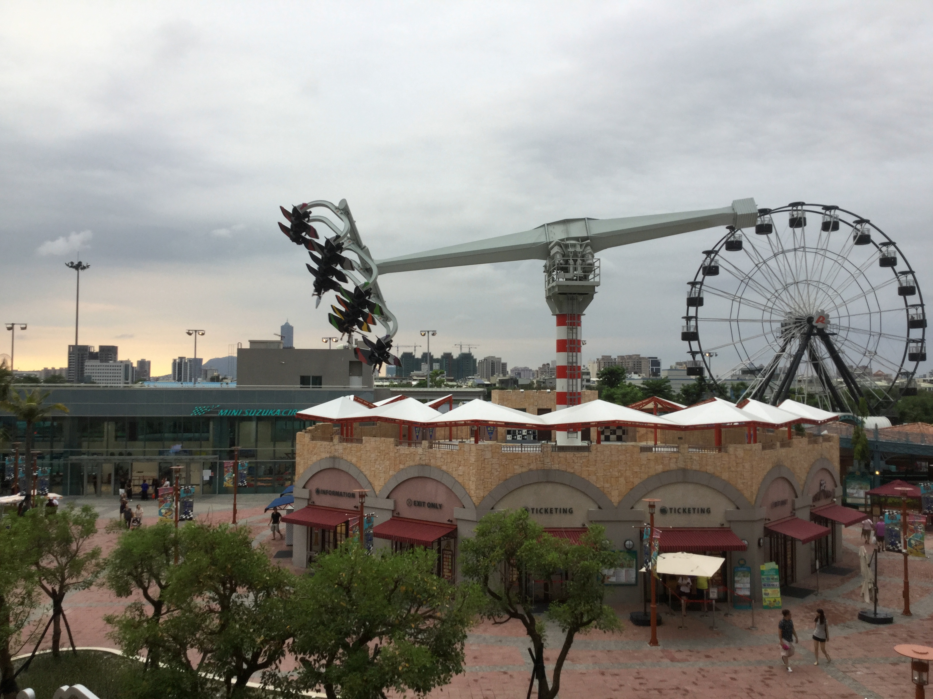 Taroko Park Kaohsiung